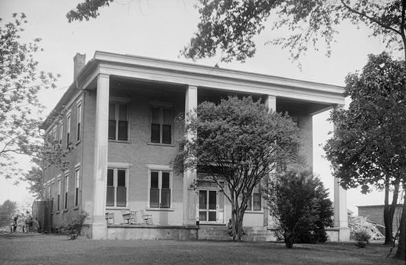 East elevation (front) Rhea-Burleson-McEntire House, 120 Sycamore Street, Decatur, Morgan County, AL.